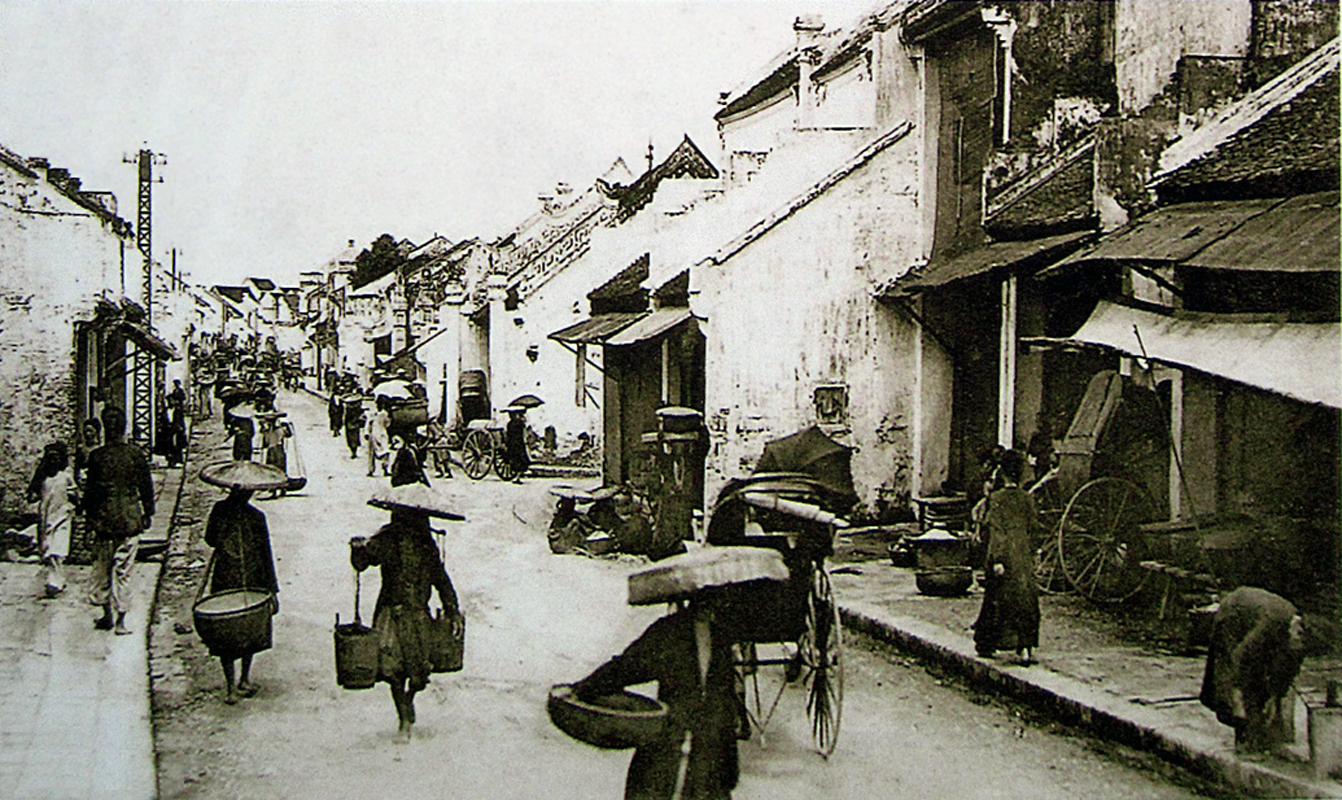 Phố Hàng Mắm